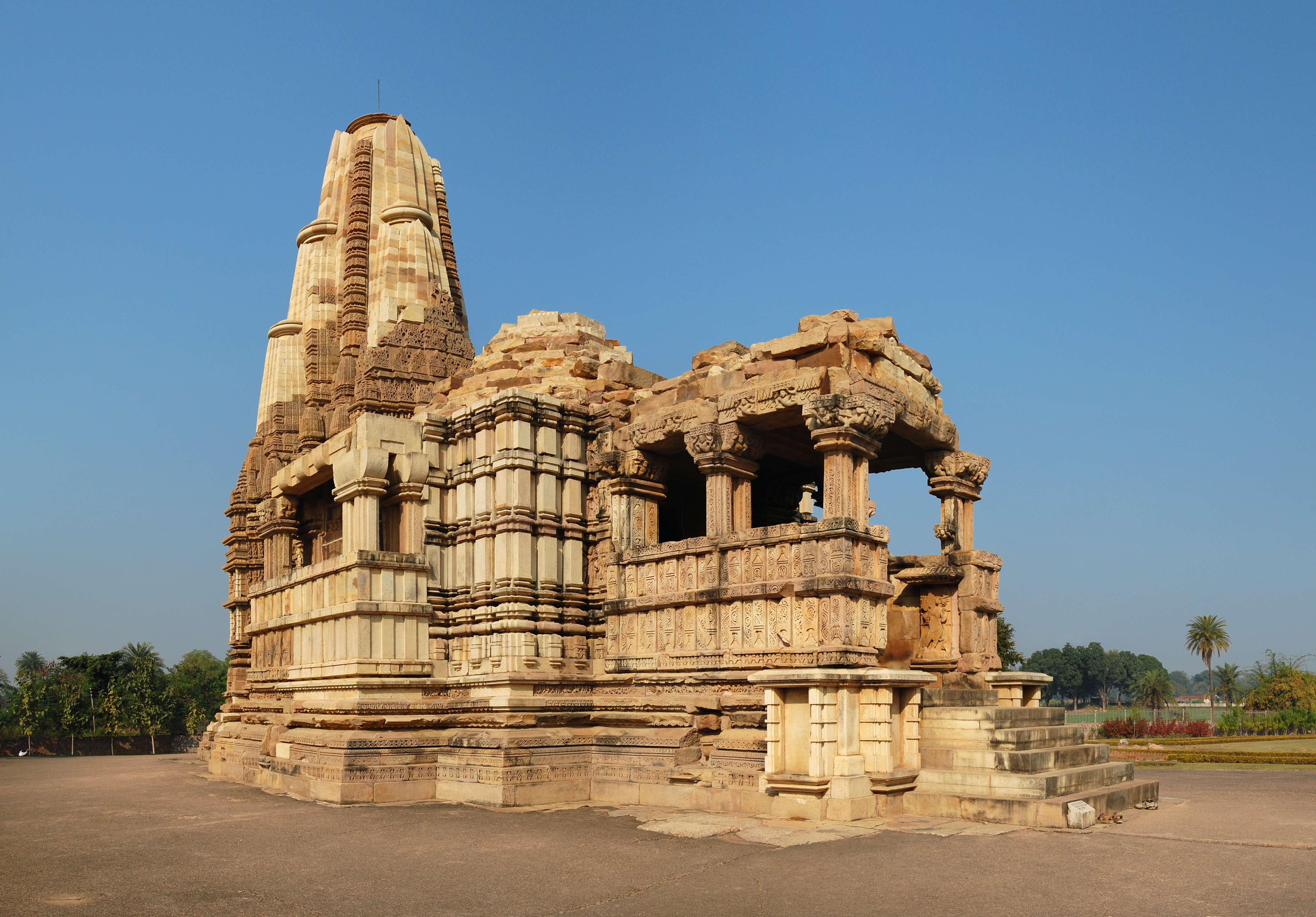 Dulhadeo (Dulhadev) Temple, Khajuraho, India.